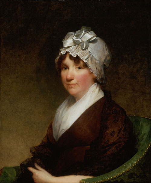 Elizabeth Perkins Sturgis (1756 - 1843) ca. 1806 28 3/4 x 23 1/8 in. (73 x 58.7 cm) Gilbert Stuart American (1757 - 1828) Object Type: Painting Medium and Support: Oil on canvas Credit Line: Purchased through the R. T. Miller, Jr. Fund Accession Number: 1941.35